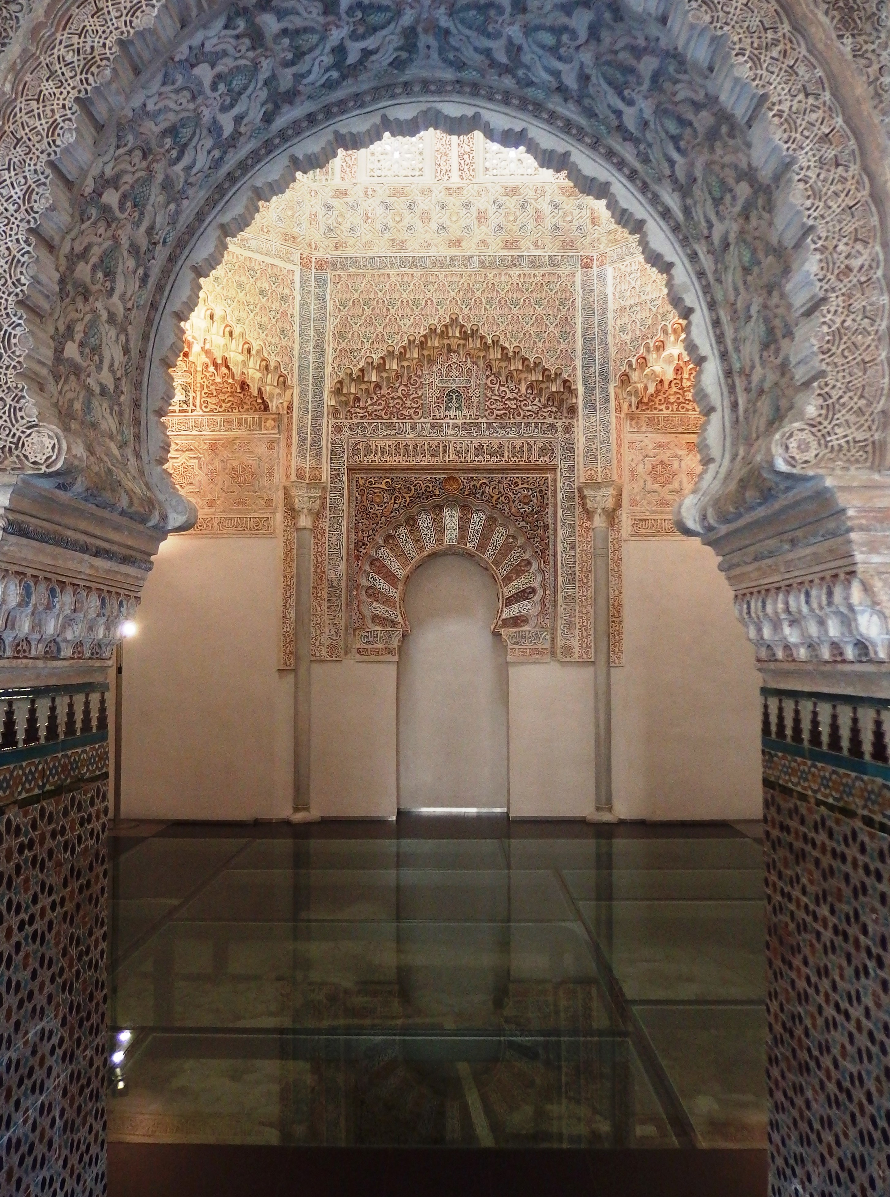 Madrasah of Granada, Spain.